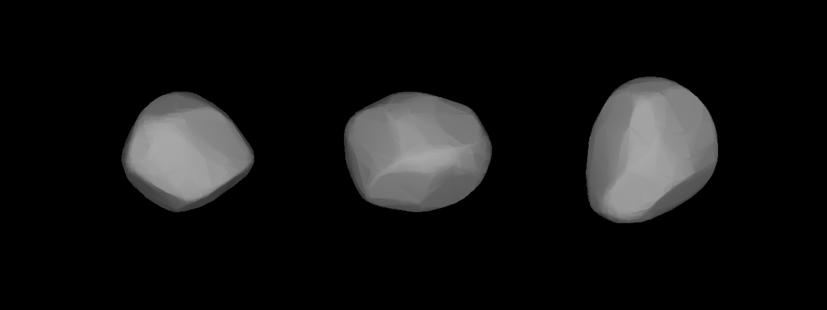 A three-dimensional model of 55 Pandora that was computed using light curve inversion techniques.